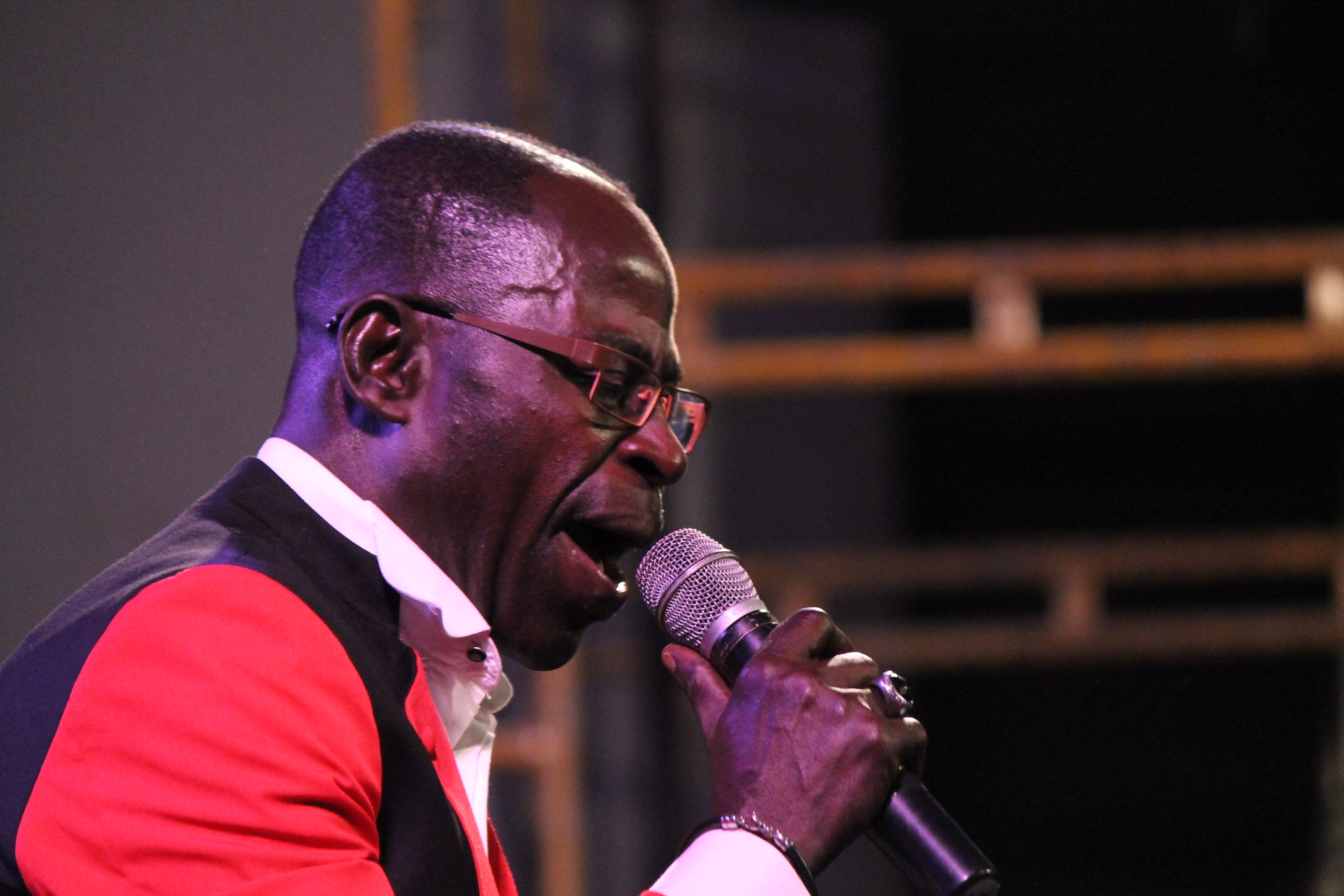 Iron Boy in motion